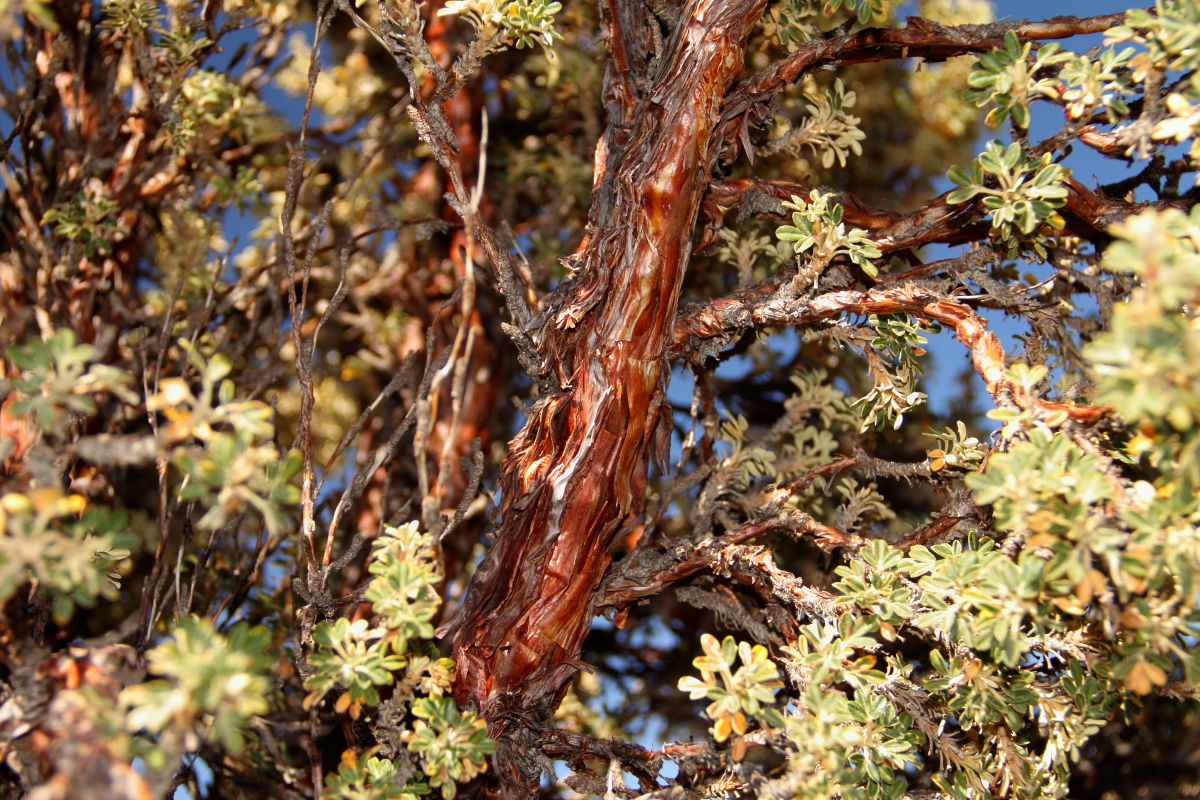 Branch of a queñua tree at the foot of Mount Sajama National Park Sajama, Bolivia.